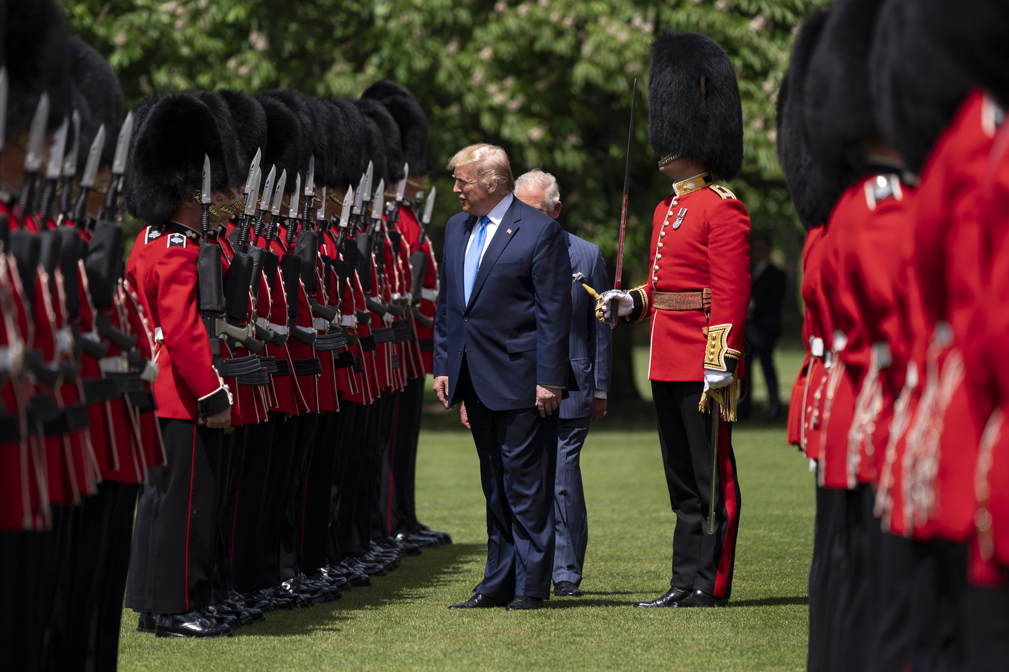 President Donald J. Trump joined by the Prince Charles inspects the Guard of Honor during the official welcome ceremony at Buckingham Palace Monday, June 3, 2019 in London. (Official White House Photo by Shealah Craighead)